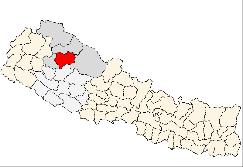 FrenchCarte de localisation dudistrict de Jumla(wp-FR),au Népal (wp-FR).EnglishLocation map ofJumla District(wp-EN),in Nepal (wp-EN).